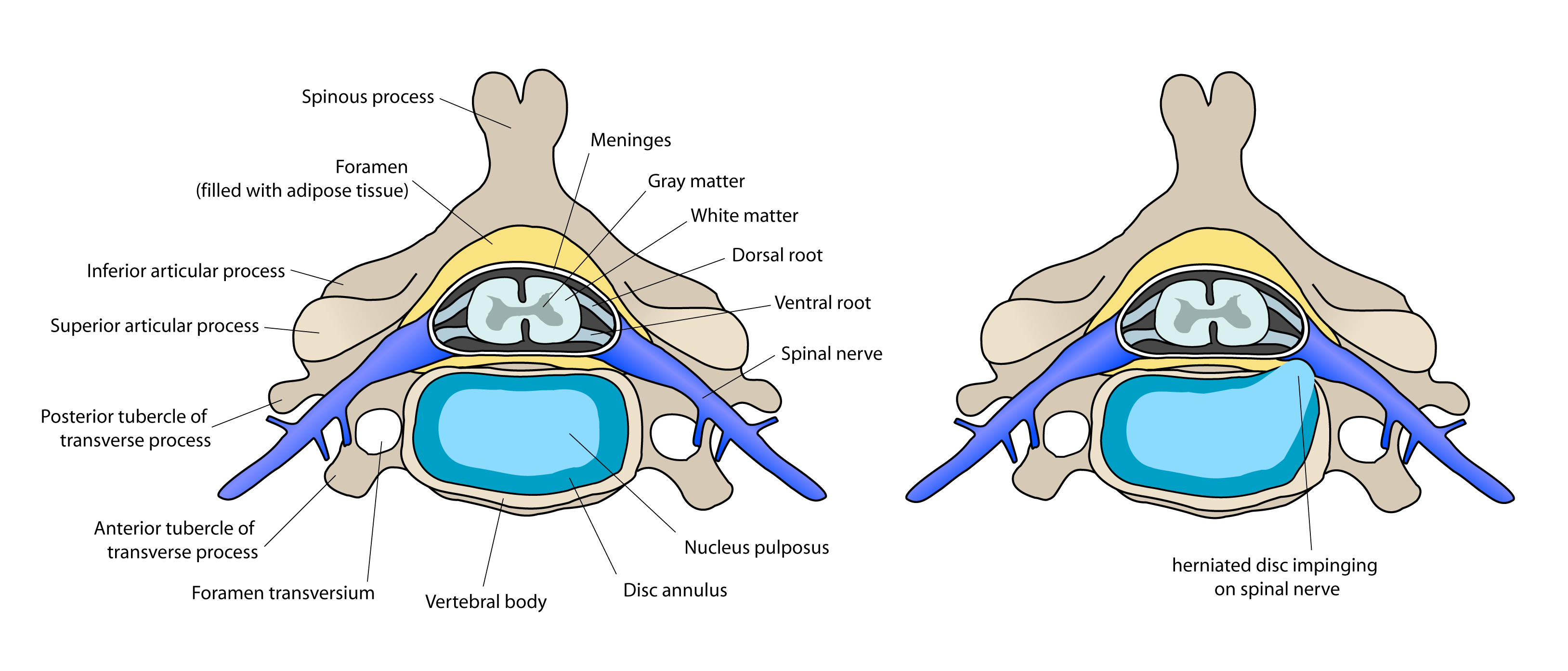 annotated diagram of preconditions for Anterior cervical discectomy and fusion